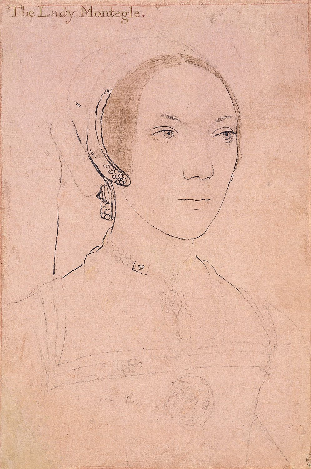 Portrait of Mary, Lady Monteagle. Coloured chalks, pen and ink on pink-primed paper, 29.8 × 20.2 cm, Royal Collection, Windsor Castle. Mary Brandon (c. 1510–before 1544) was the first wife of Thomas Stanley, 2nd Lord Monteagle. Notes on the drawing indicate a red damask dress and a red, white, and gold headdress. The intended effect might have been similar to that in Holbein's miniature portrait of Lady Audley, painted at around the same time. The French hood suggests a date around the end of the 1530s. References Susan Foister, Holbein in England, London: Tate, 2006, ISBN 1854376454, p. 129. K. T. Parker, The Drawings of Hans Holbein at Windsor Castle, Oxford: Phaidon, 1945, OCLC 822974, p. 52.